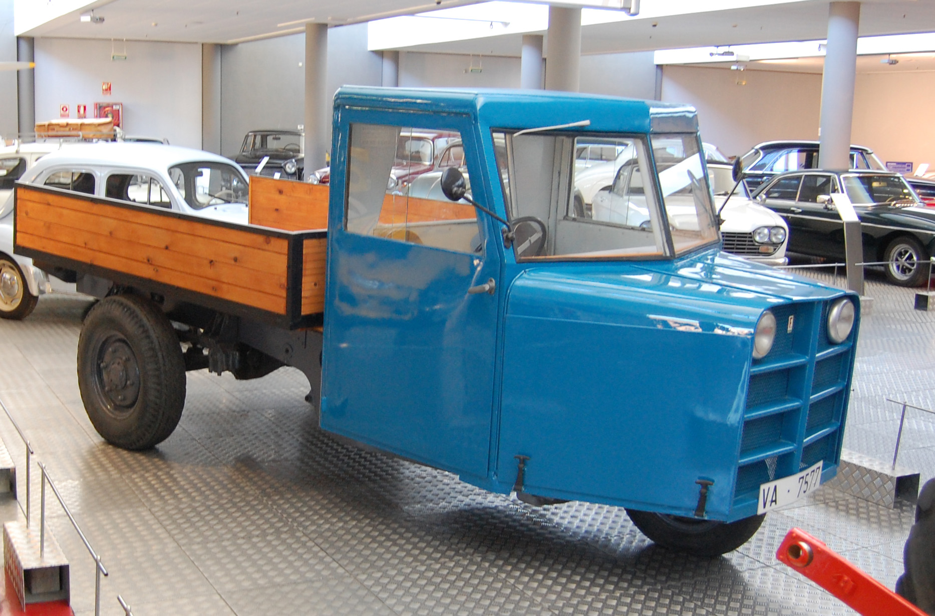 Prototype FADA motorcar van 1959 P-54 in Historic Automobile Museum Salamanca